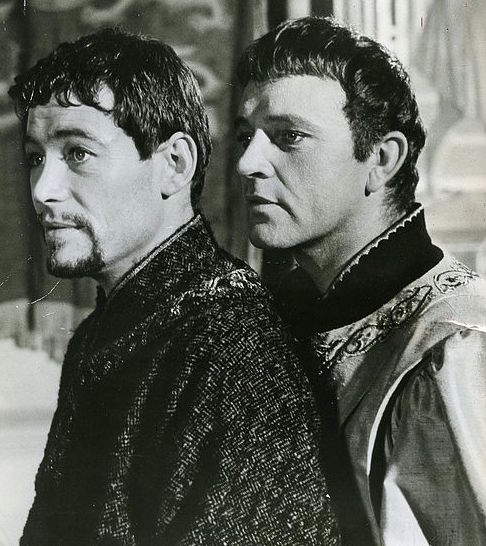 A still from the 1964 film Becket